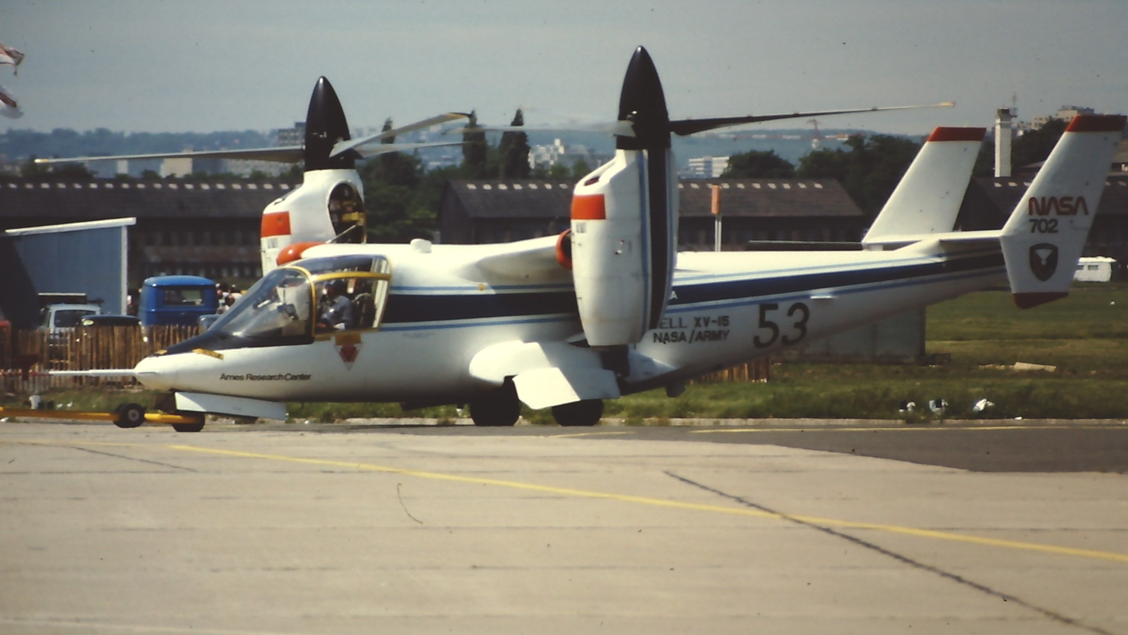 N702NA A Bell 301 / XV-15A of NASA at the 1981 Paris Air Show